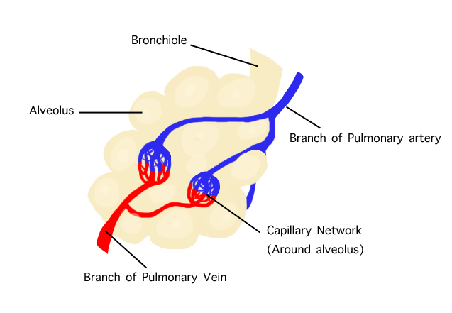 The structure of the air sac.